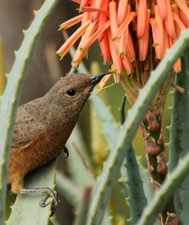 Female Cape Rock Thrush (Monticola rupestris) eating florets of Aloe arborescens. At Cavern Resort, KwaZulu-Natal, South Africa.